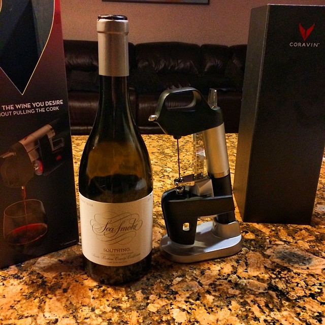 Wine dispenser "Coravin"